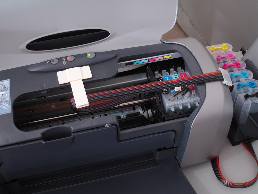 Picture of my Epson inkjet printer with a continuous ink system installed. Author: Denis Gomes Franco